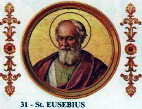 Portrait of Pope Eusebius in Saint Paul Outside the Walls